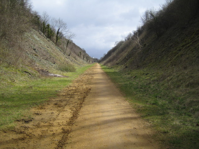 Dunstable: Dismantled railway and National Cycle Network Route 6. Viewed looking east through the cutting for the trackbed of the long dismantled railway line between Luton and Leighton Buzzard, this is the section of former railway between Dunstable High Street and Stanbridgeford stations, now utilized as National Cycle Network Route 6 which itself runs from London to the Lake District.